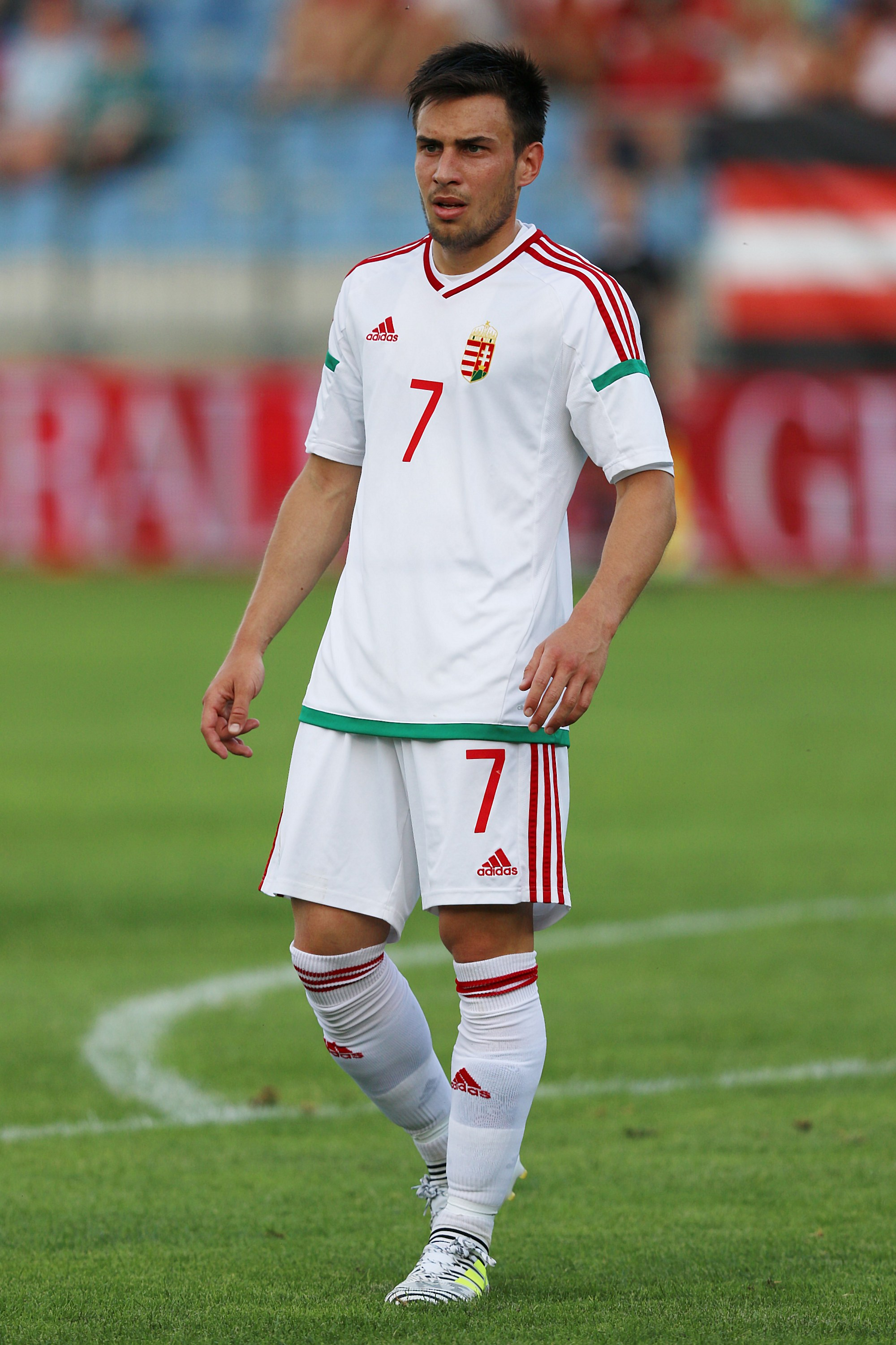 Friendly match: Austria U-21 (red shirts) vs. Hungary U-21 (white shirts) at 12. June 2017 in the Sonnenseestadion in Ritzing 2:1 (1:1) – The photo shows Barnabás Rácz (Haladás Szombathelyi)